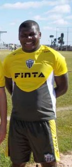 Brazilian football player Cléber Américo da Conceição short Cléber